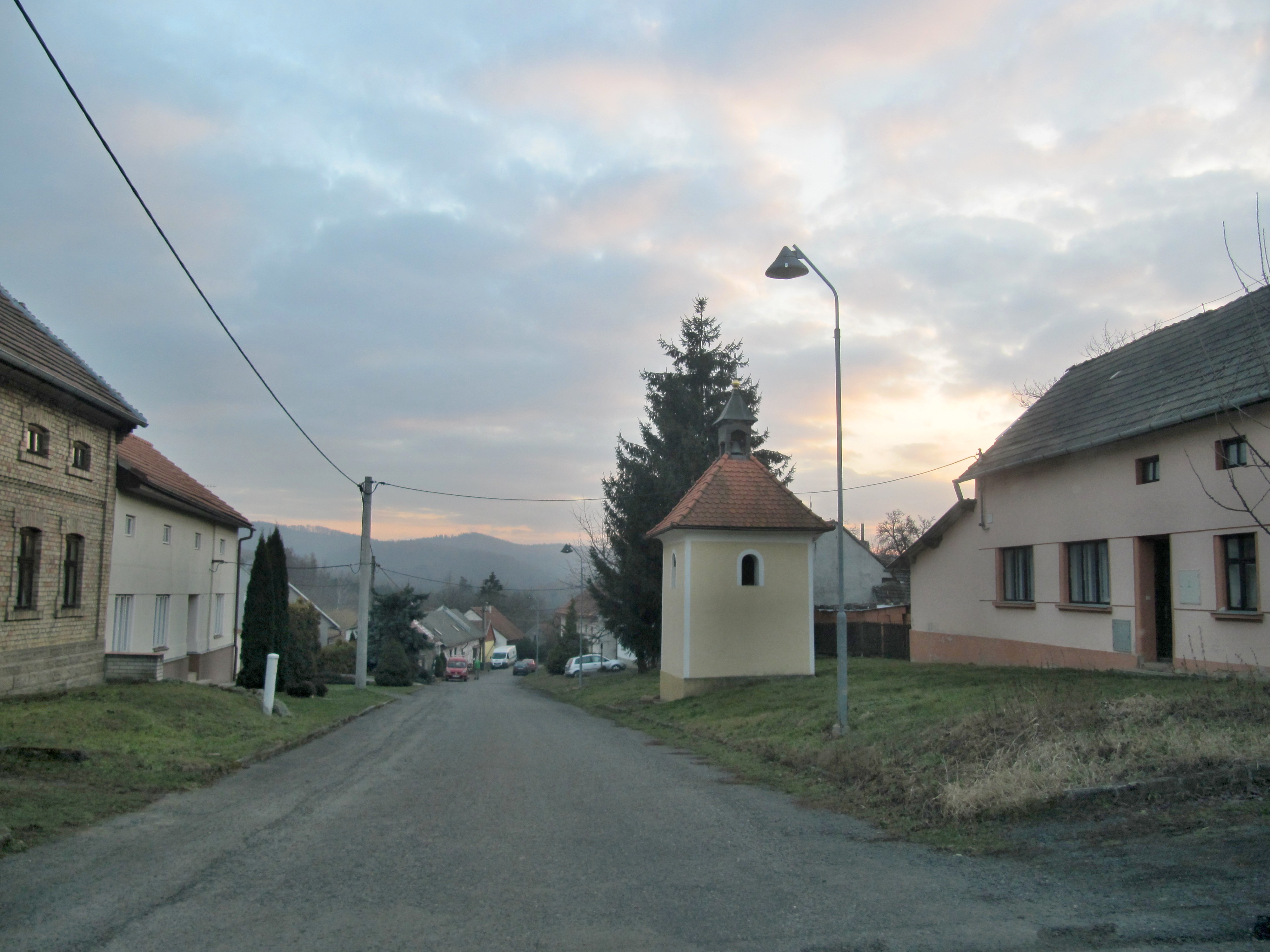 Kostelany, Kroměříž District, Czech Republic, part Újezdsko.